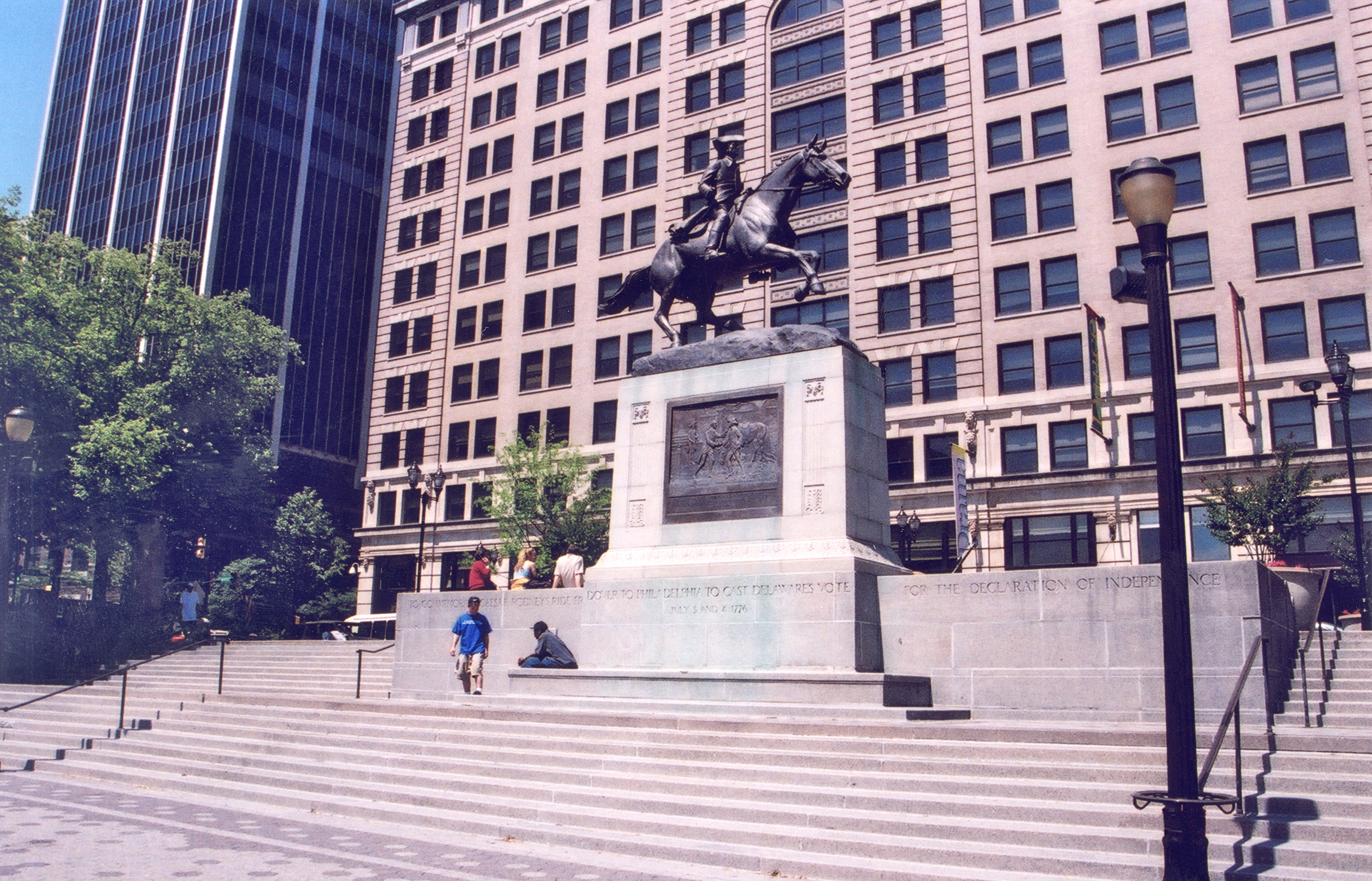 Statue of Caesar Rodney, in Rodney Square, Wilmington, DE Photo declared to be Public Domain on US Gov website